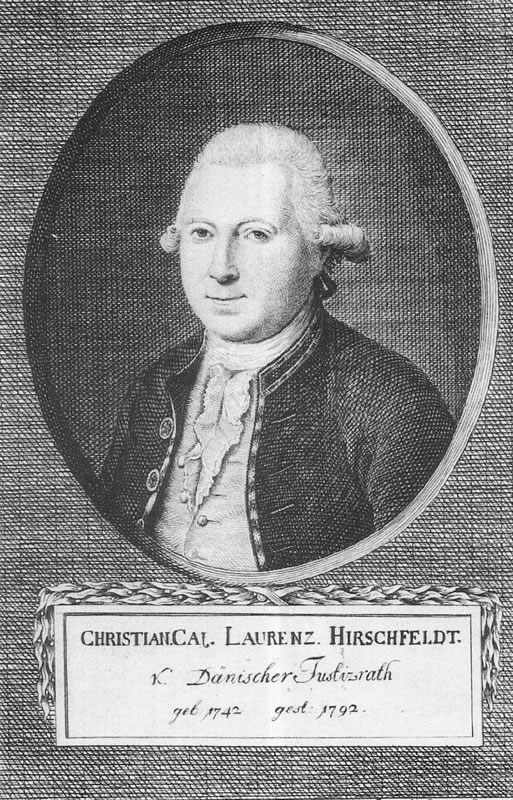 Portrait of Christian Cay Lorenz Hirschfeld (1742-1792)